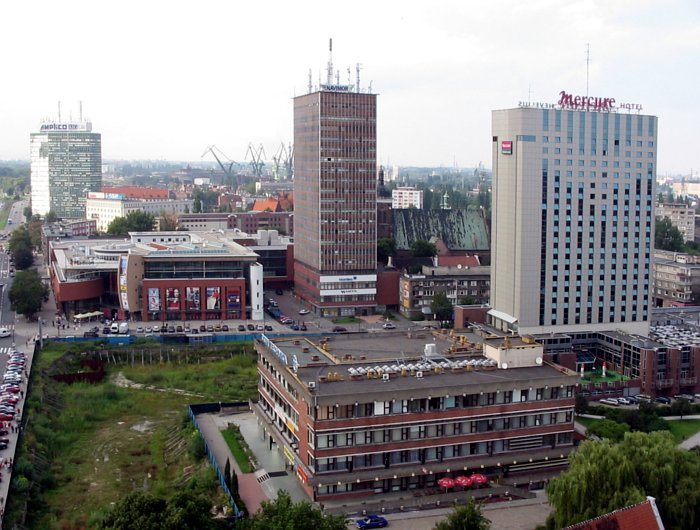 The highest skyscrapers in Gdańsk (2004), Poland